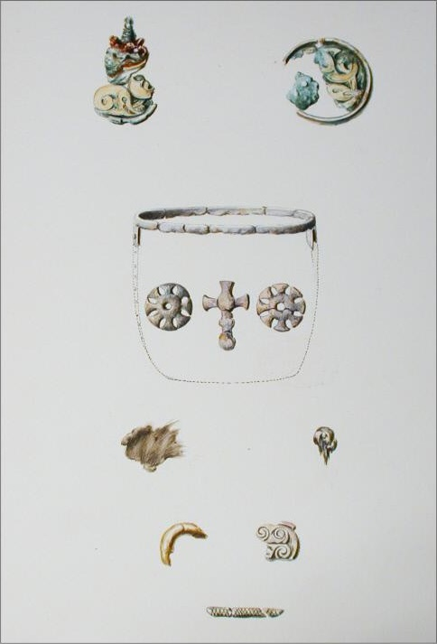 Watercolour by Llewellynn Jewitt depicting finds from Benty Grange